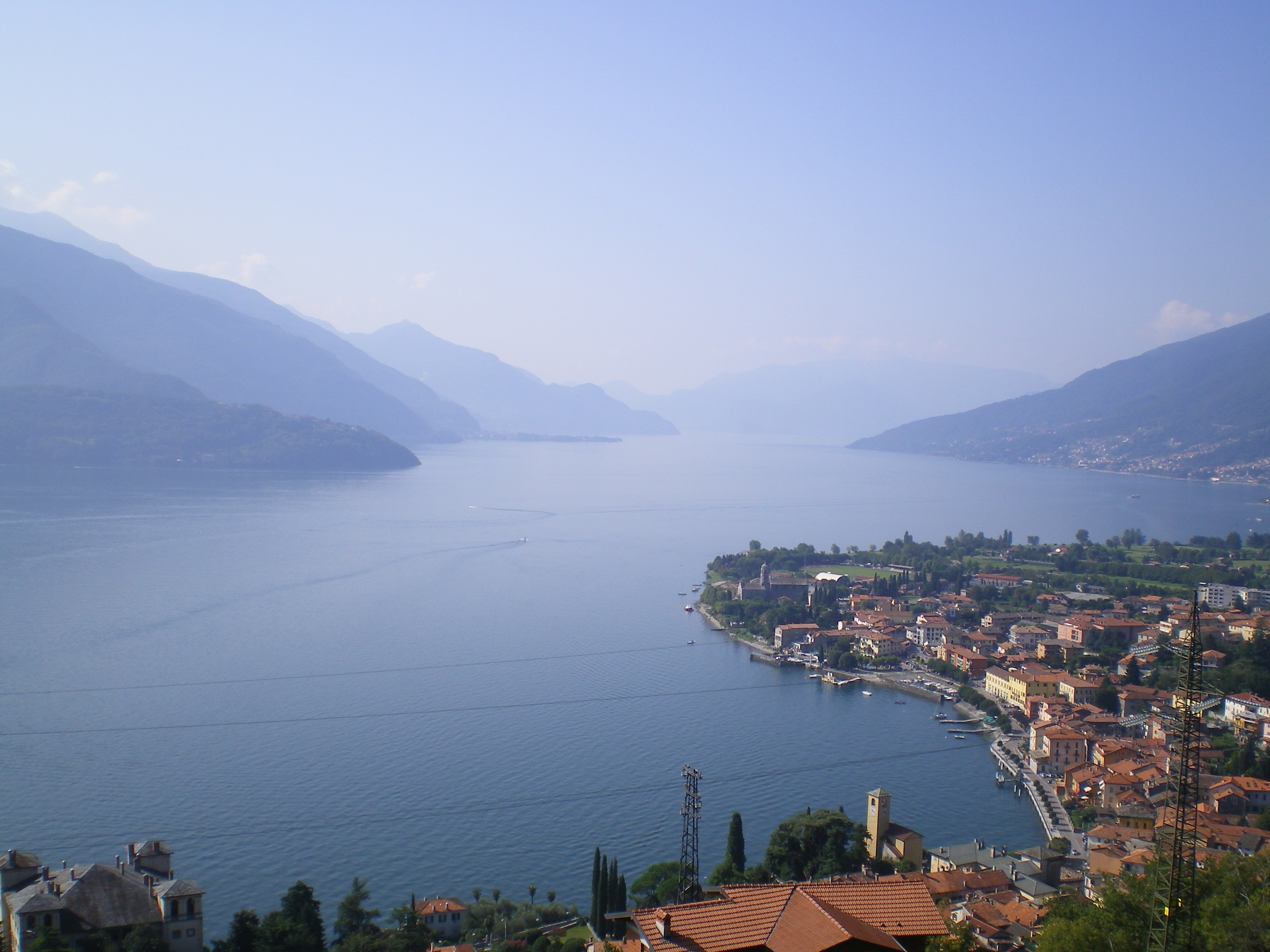 Gravedona, lake Como, Italy